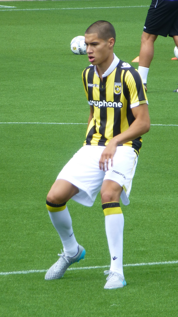 Kevin Diks at the Papendal training grounds of Vitesse on 28 June 2015